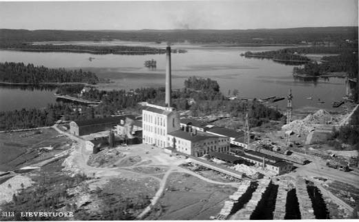 Lievestuore pulp mill in Laukaa, Finland from air